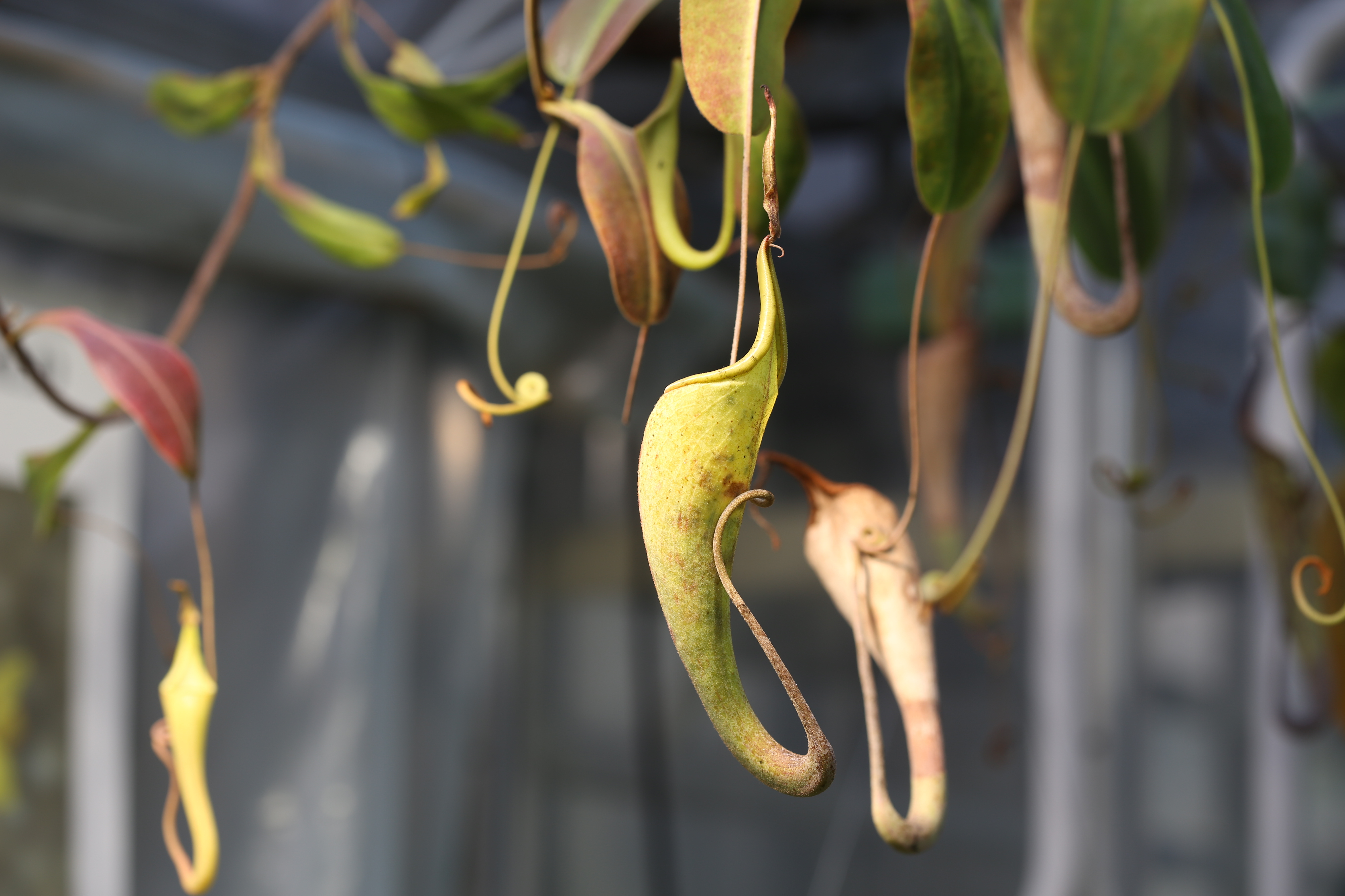 Nepenthes fusca at Gothenburg Botanical Garden 2015. Plant id: 2008-2008 p G -- Extreme pl